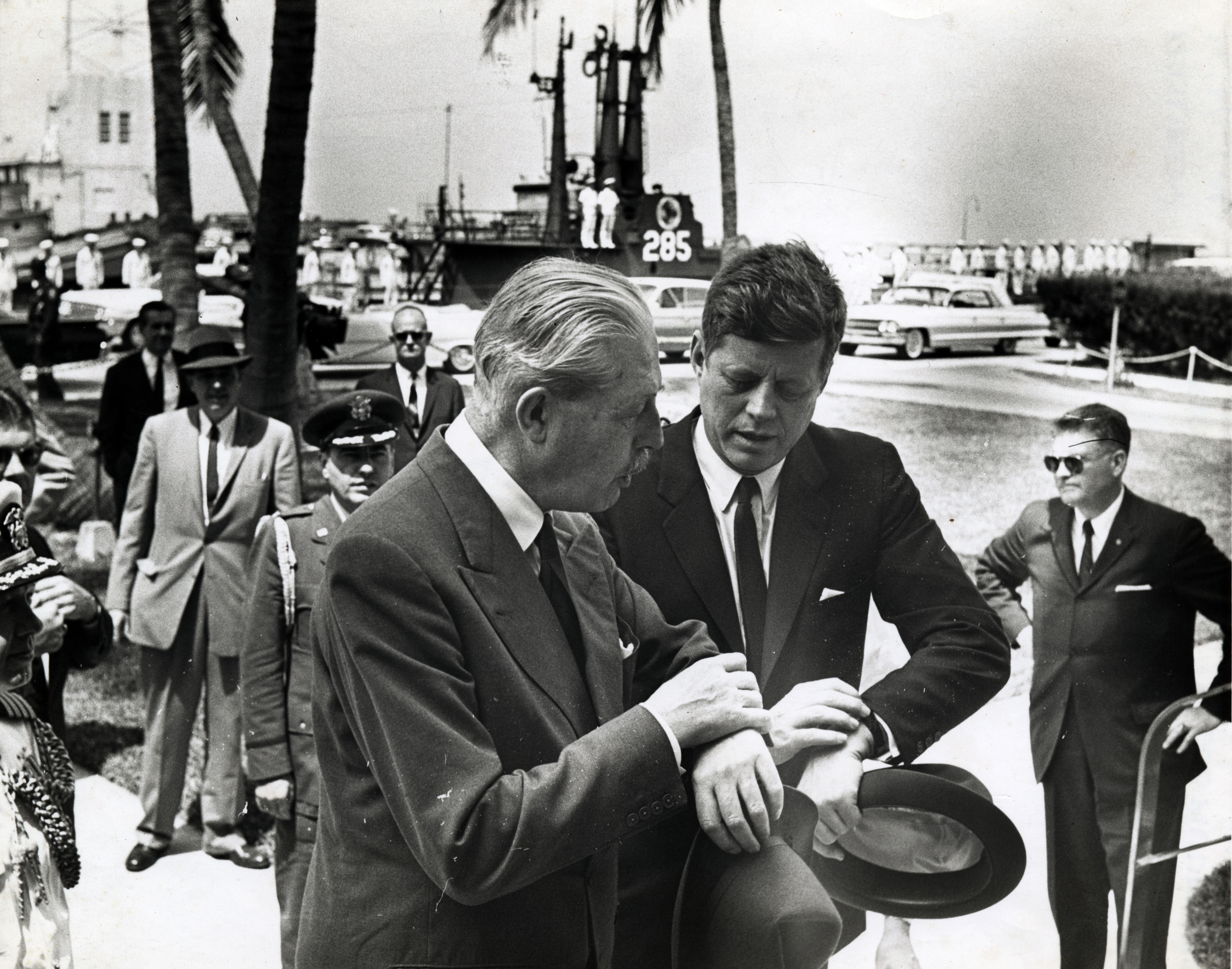 President Kennedy and Prime Minister Macmillan meeting at the Key West Naval Station on March 27, 1961. Photo by Don Pinder.